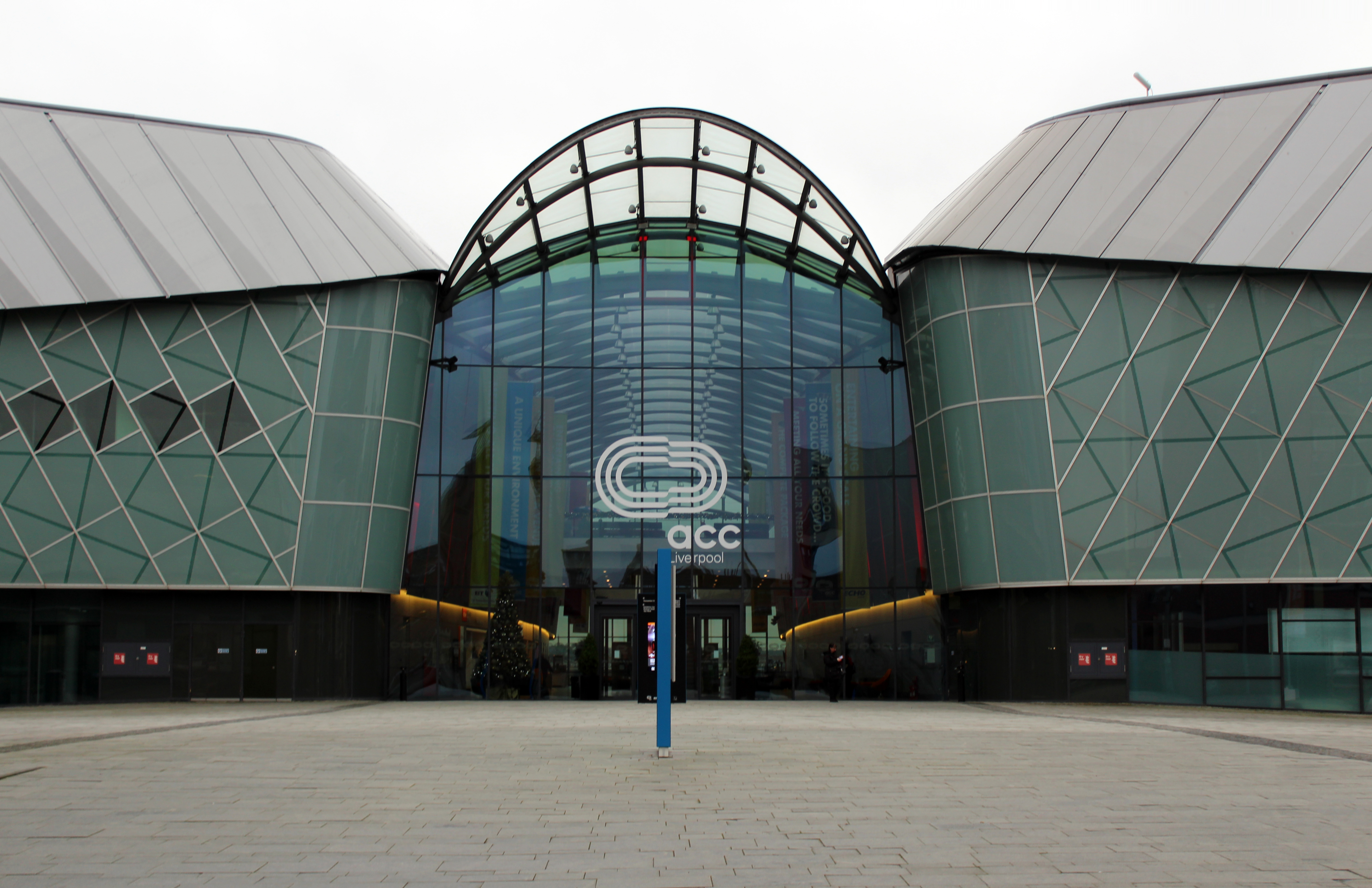 Close view of the entrance to the ACC Liverpool; BT conference centre is to the left and Echo Arena to the right.